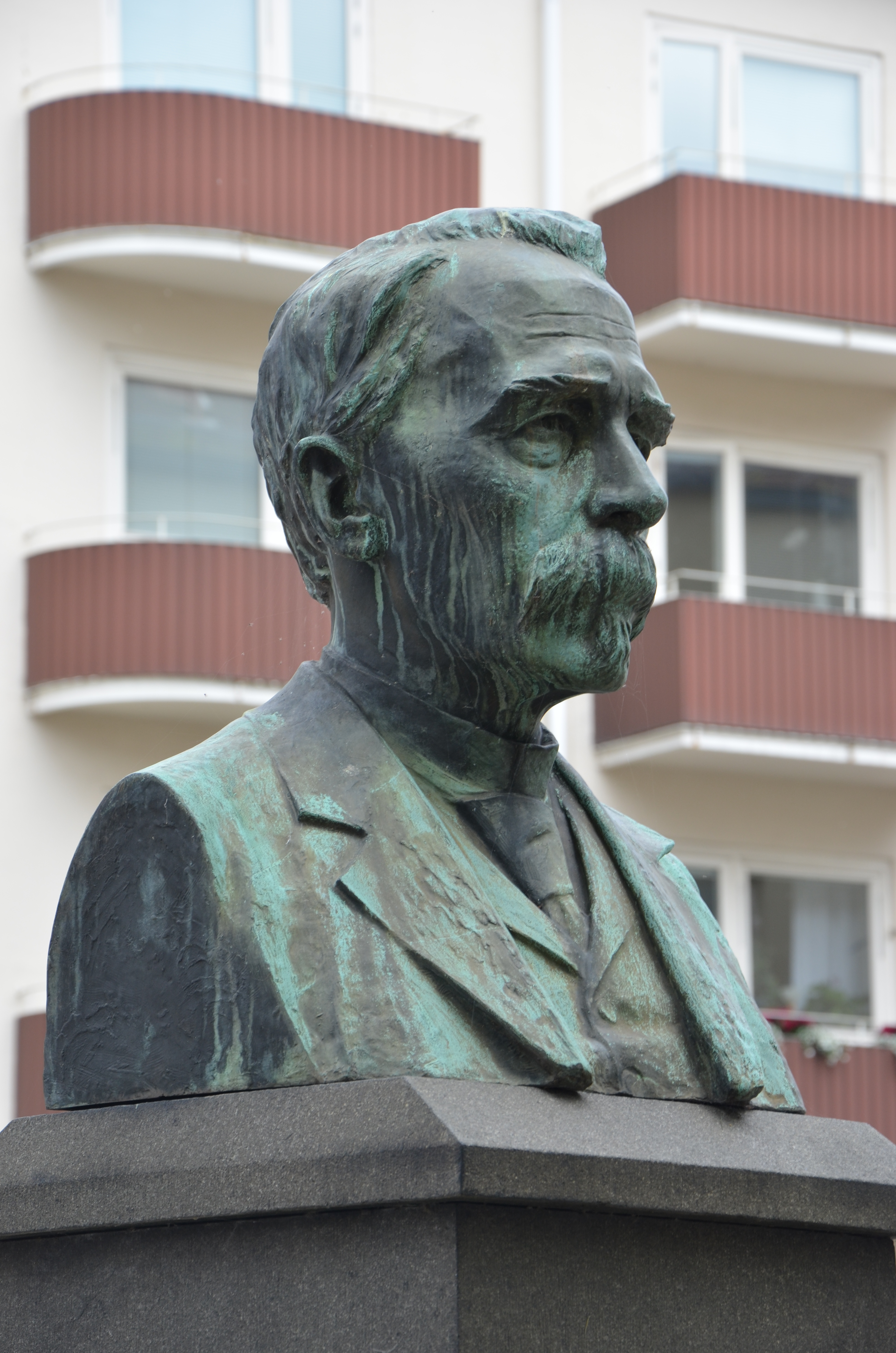 Carl von Feilitzen, bust by Carl Eldh, Vedtorget, Jönköping, Sweden